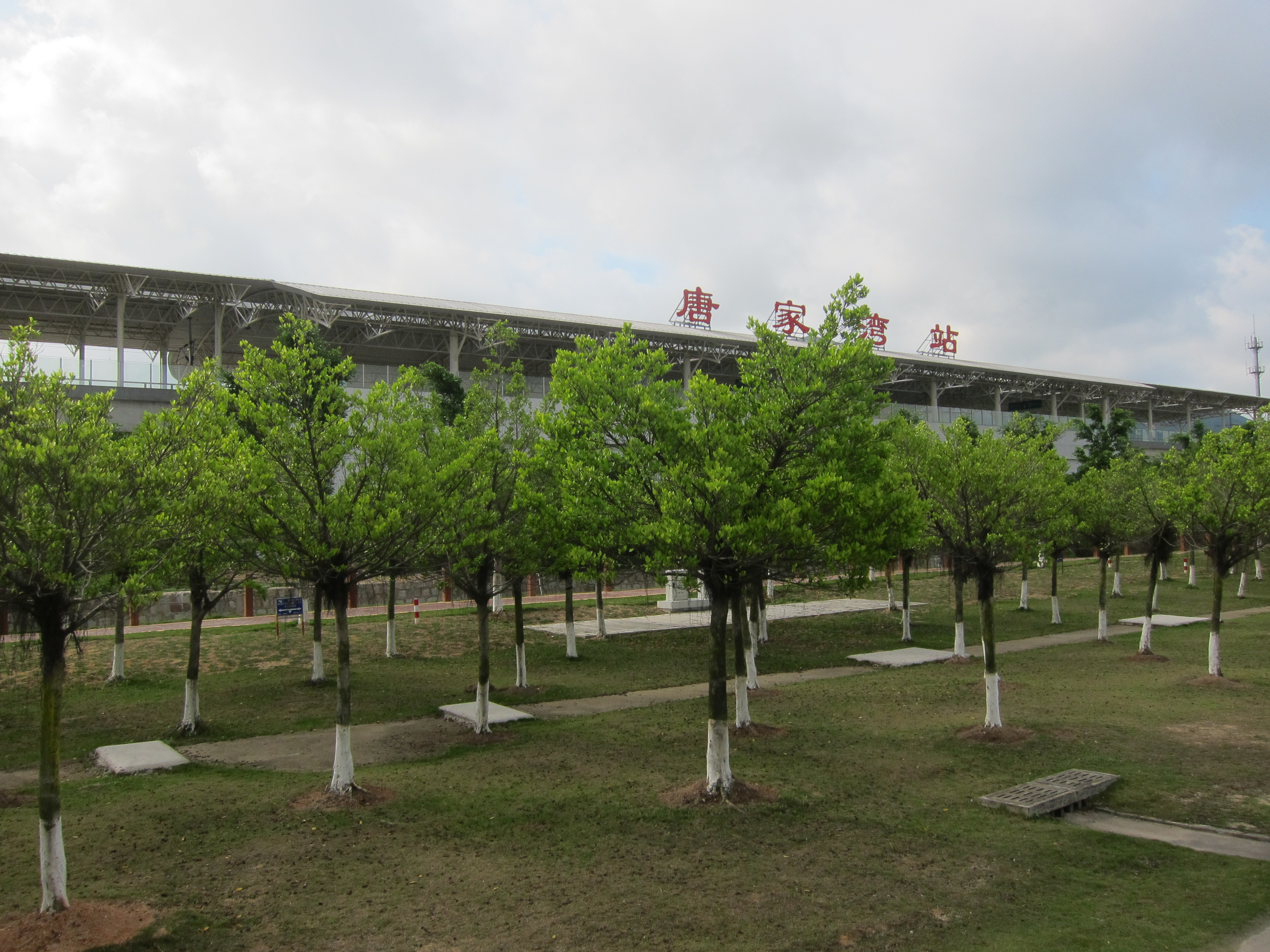 Exterior of Tangjiawan Station. Yes, there are several trees in front of the station.